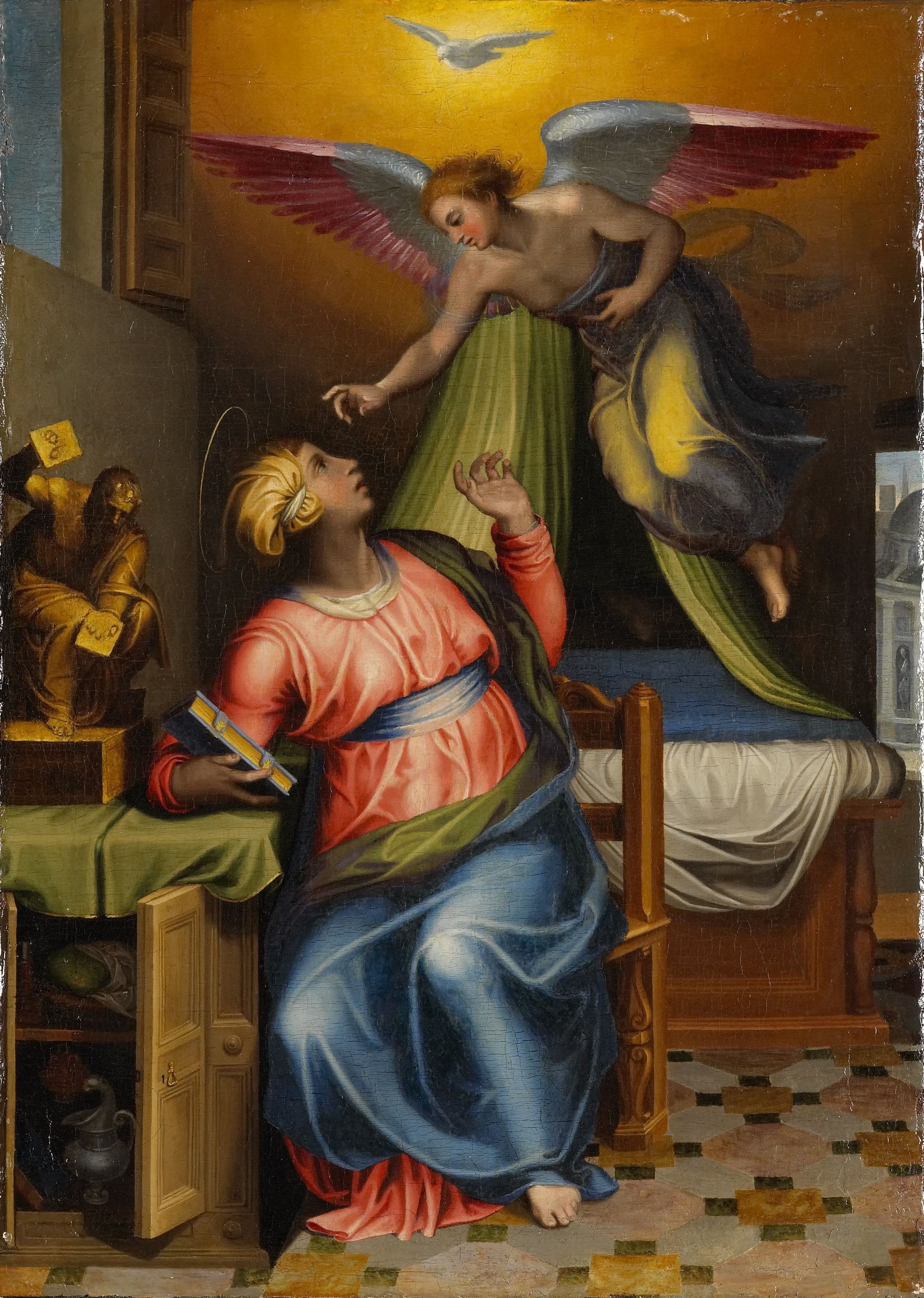 Mary, holding a book in her hand, sits by a cabinet with open doors, turning towards the angel. Over the angel the dove of the Holy Spirit. The statue standing on the cabinet shows Moses smashing the tablets of the law.